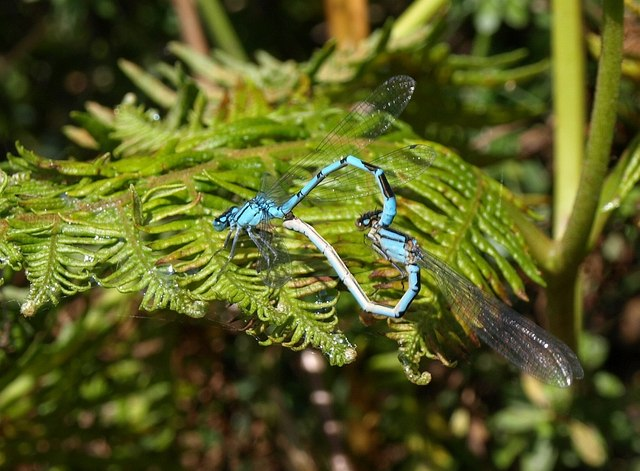 Mating damselflies, Slapton The distinctive shape of a pair of mating damselflies beside Slapton Footpath 10 as it runs alongside Slapton Ley.